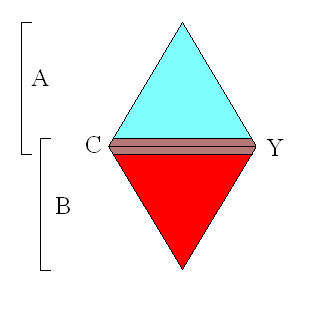 Picture concerning the proof of the suspension isomorphism via the Mayer-Vietoris theorem.